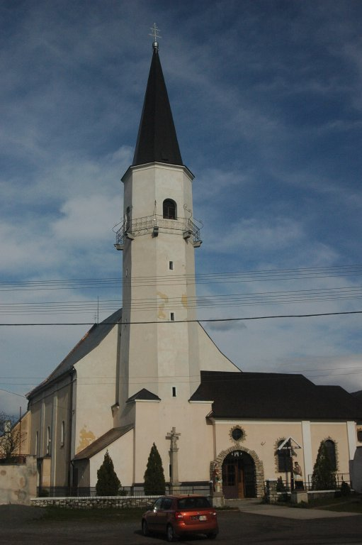 Sološnica, All Saints catholic church (1699)